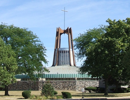 St. John Brebeuf Church in Niles, Illinois, United States